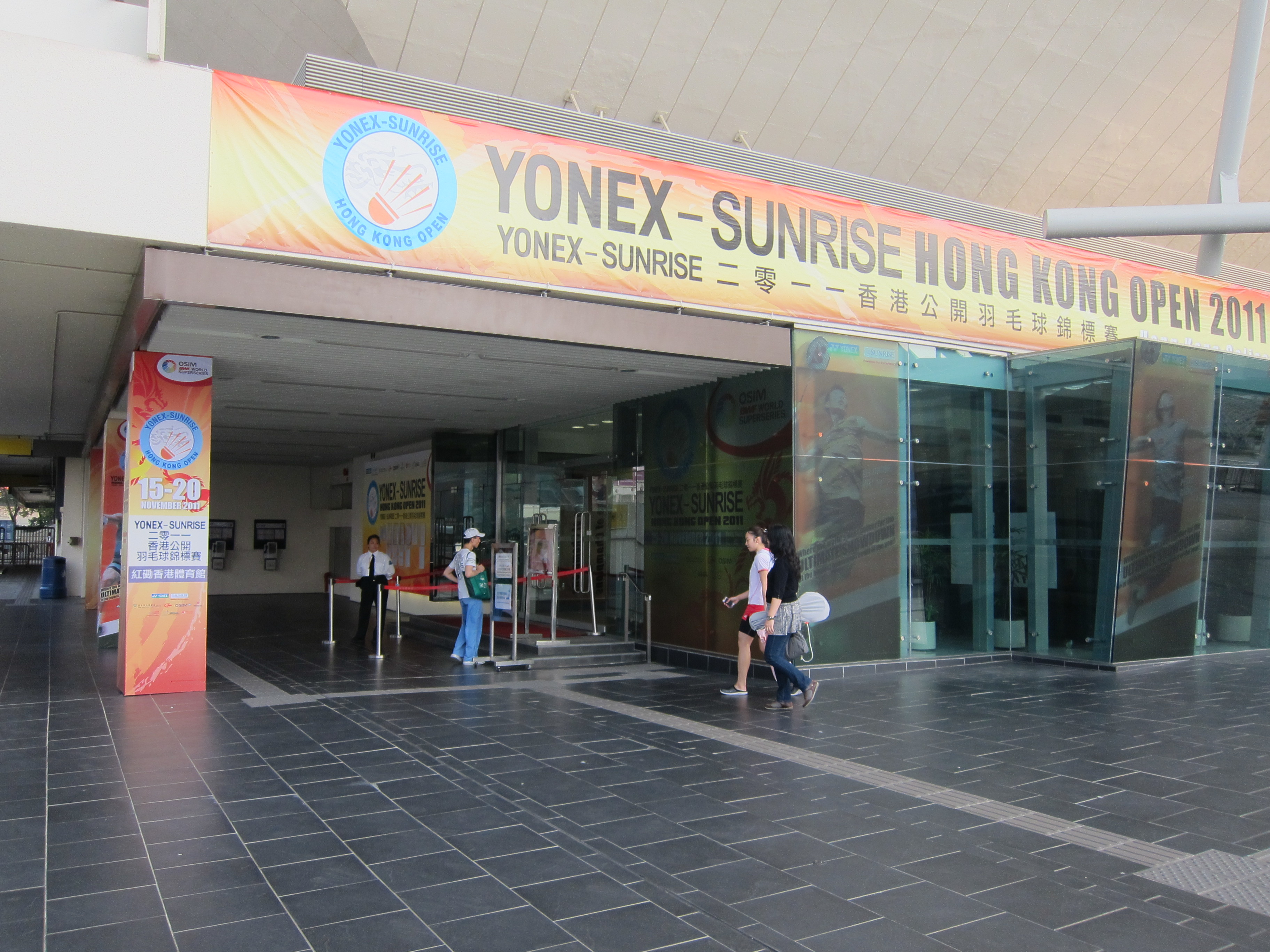 The Venue of Hong Kong Open Badminton Championships 2011 - Hong Kong Coliseum